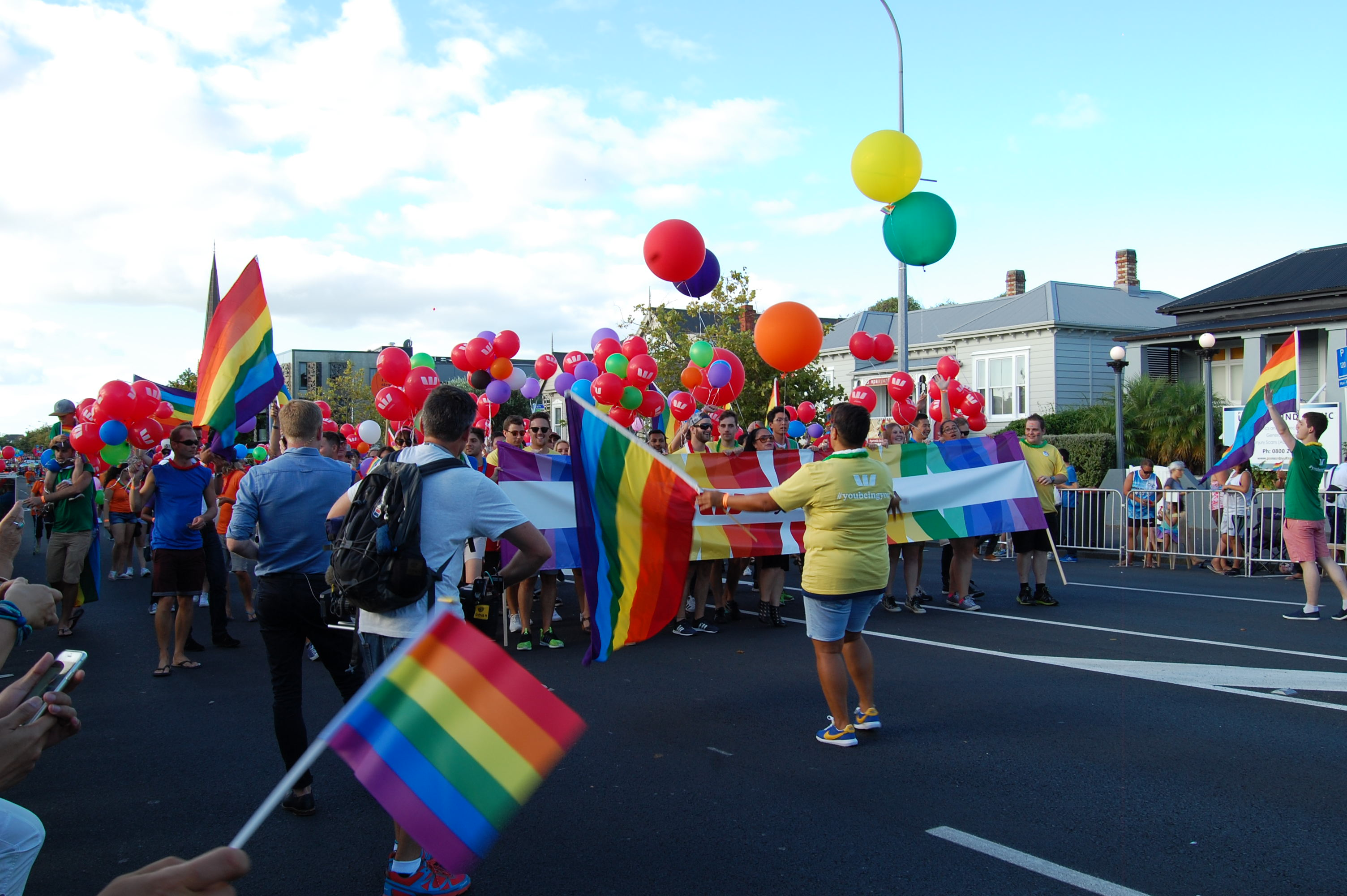 Westpac on Auckland pride parade 2016 Personality rights warningAlthough this work is freely licensed or in the public domain, the person(s) shown may have rights that legally restrict certain re-uses unless those depicted consent to such uses. In these cases, a model release or other evidence of consent could protect you from infringement claims.